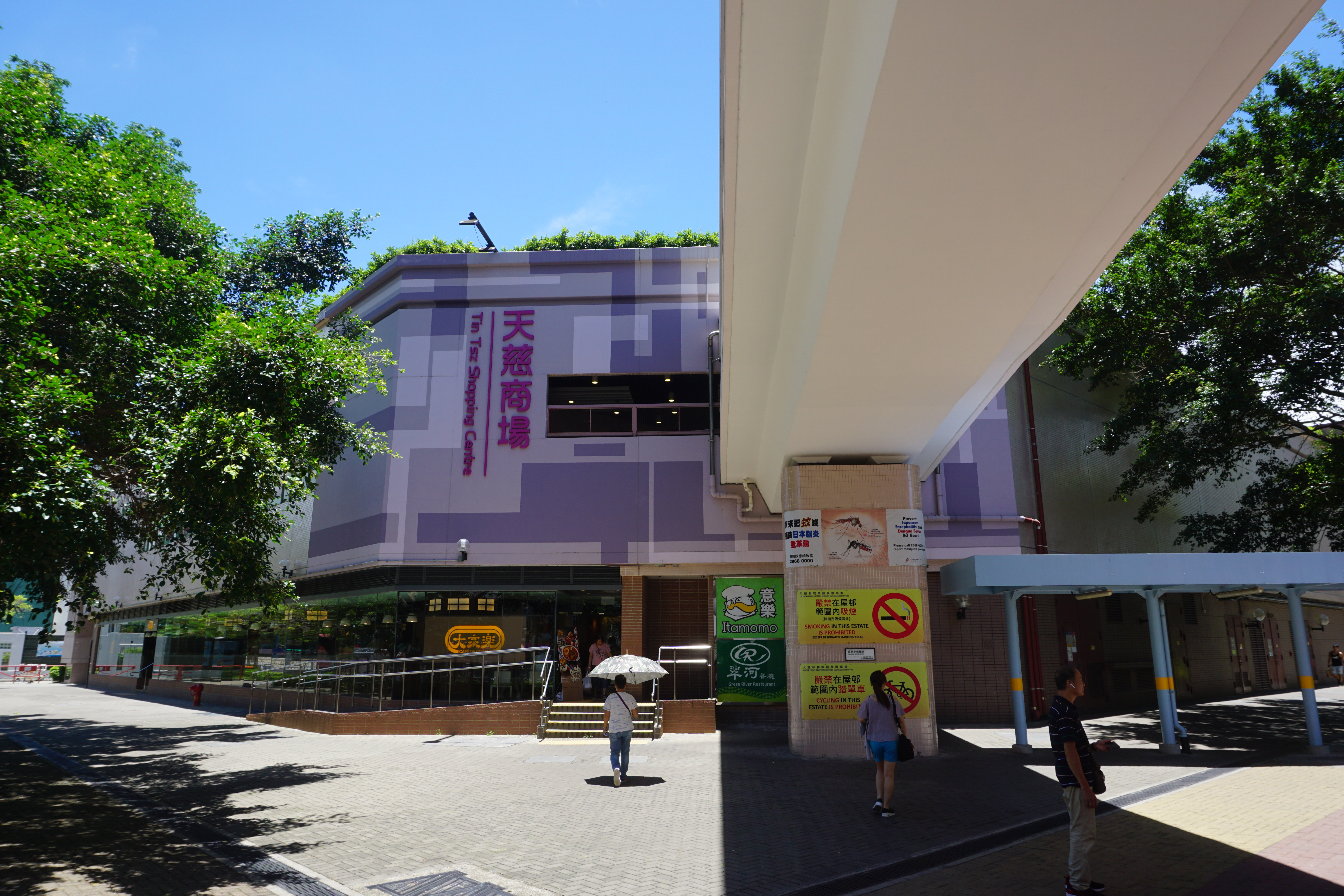 Tin Tsz Shopping Centre in Tin Shui Wai, Hong Kong.